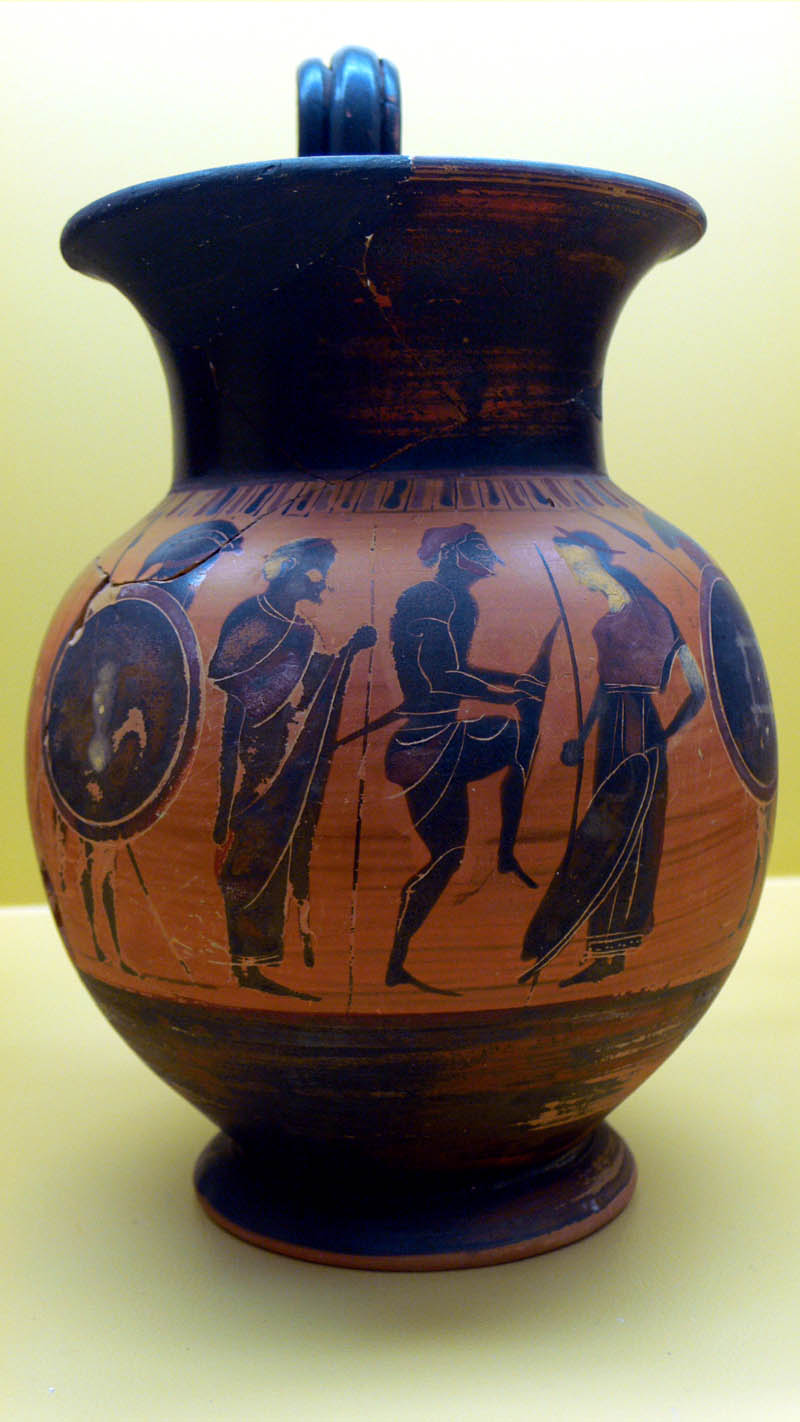 Oinochoe with an arming scene. 550-525 B.C. Athens Agora Museum.